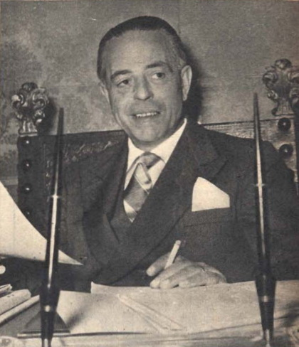 Gaetano Martino in his ministerial office